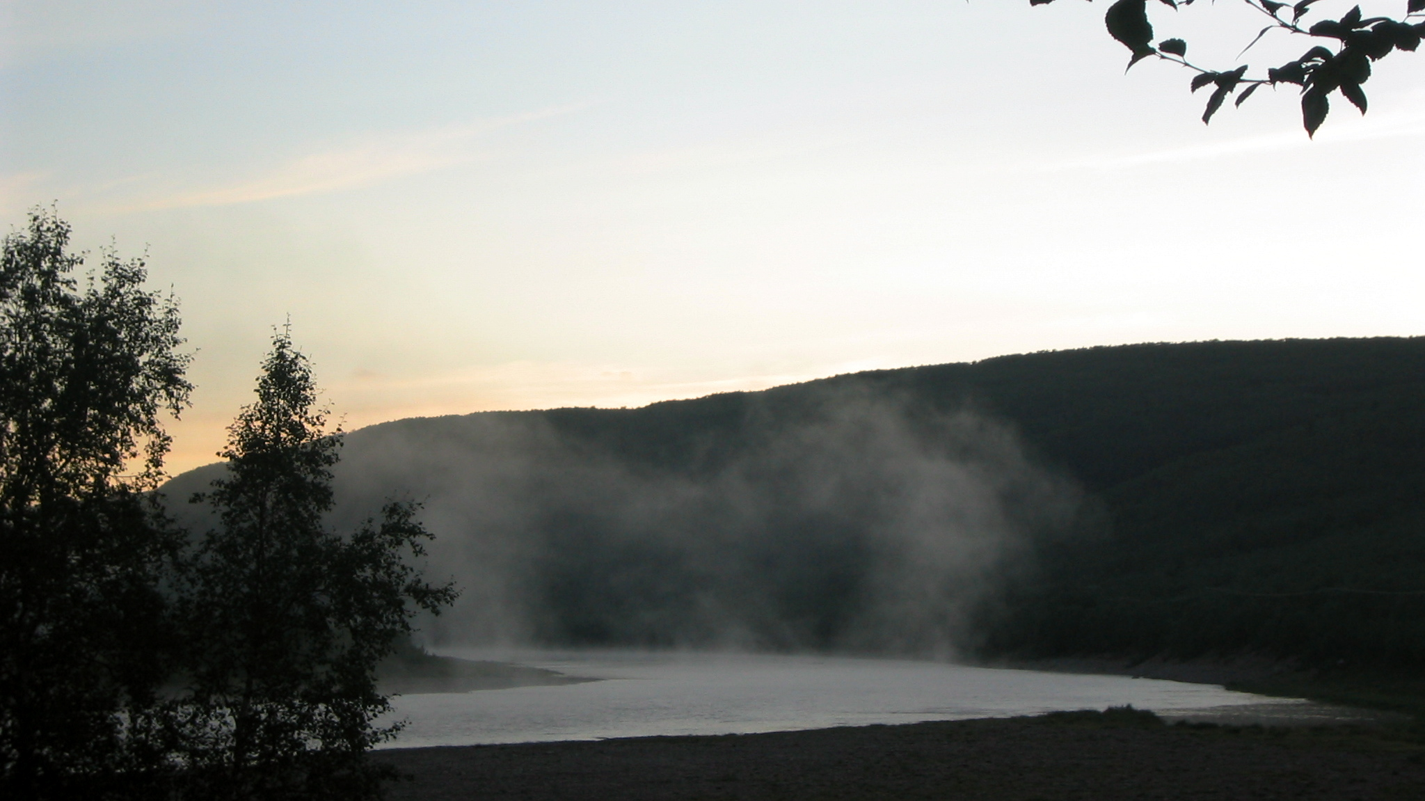 Steam fog over Teno river, Finland. Despite being summer, temperature was just 5° C.